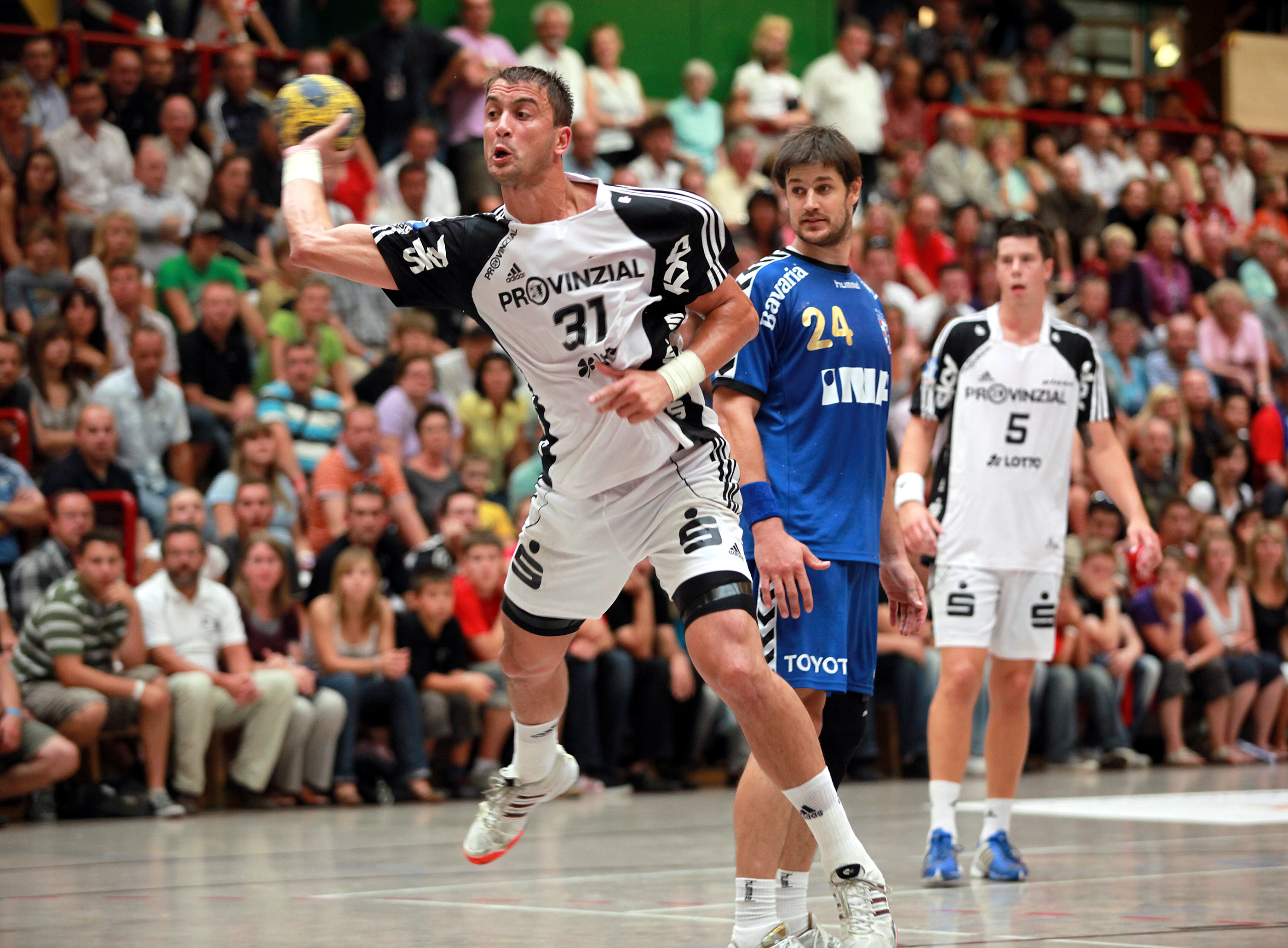 Momir Ilić, the Serbian handball player from THW Kiel, during the Schlecker Cup 2009 in Ehingen (Germany)